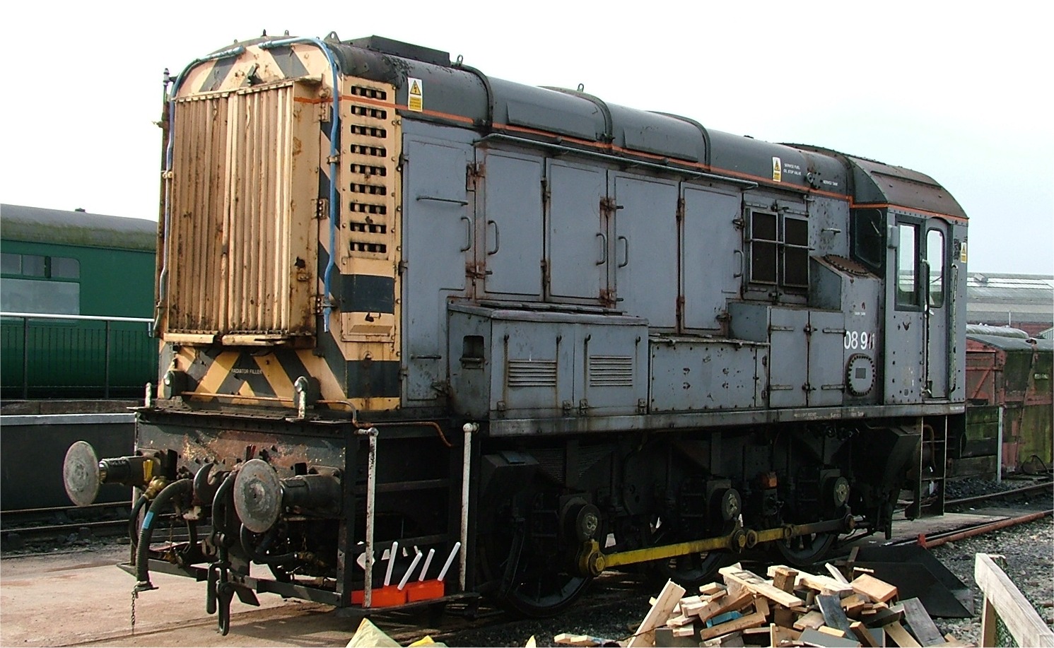 British Rail Class 08 locomotive 08911 (I think...) at the National Railway Museum, York Photo by and copyright Tagishsimon